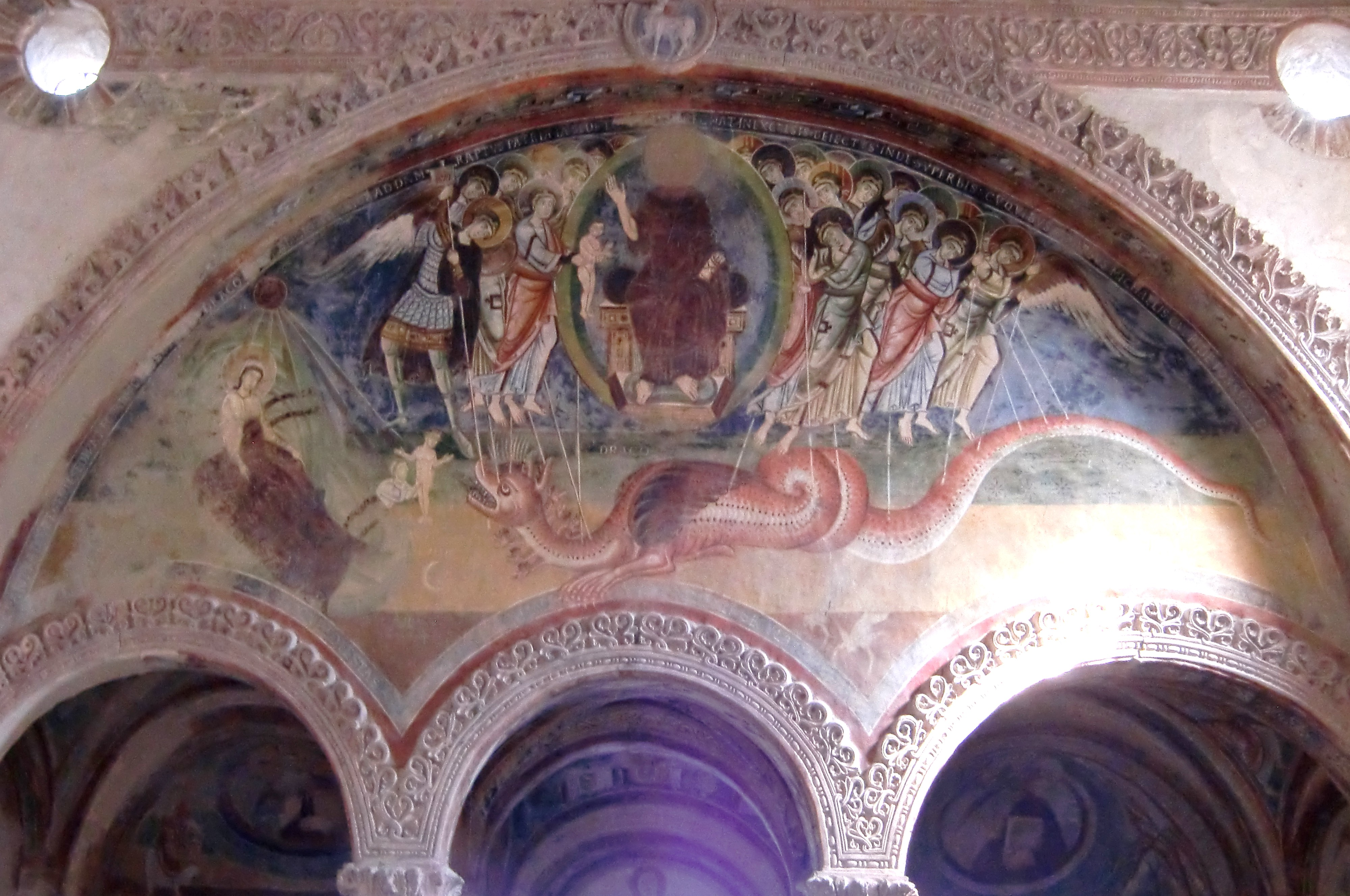 Unknown painter, scene from Chapter 12 of the Apocalypse, fresco, end of the XI century, San Pietro al Monte church, Civate (Italy)